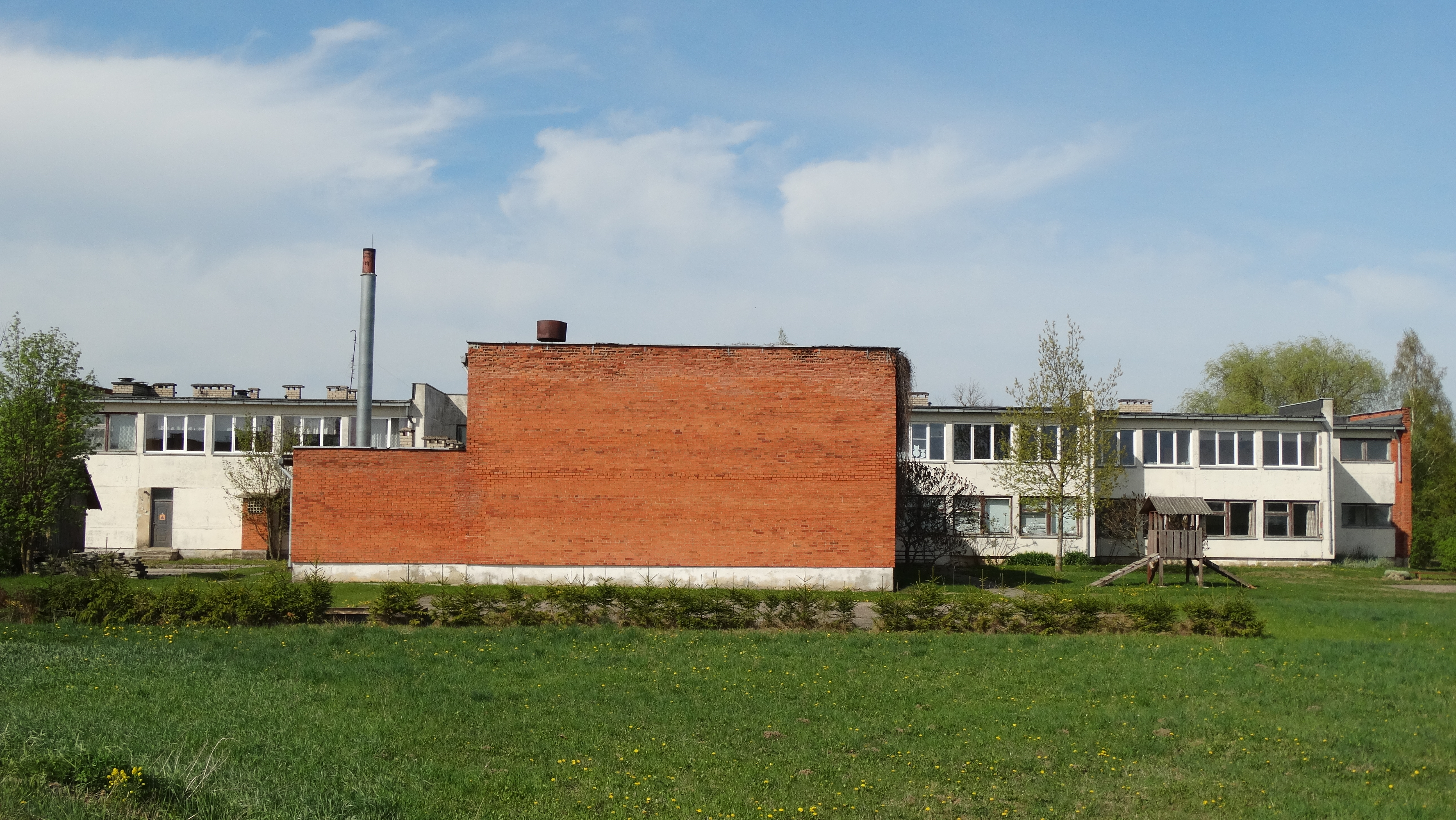 Degėsiai, former school, Pakruojis District, Lithuania